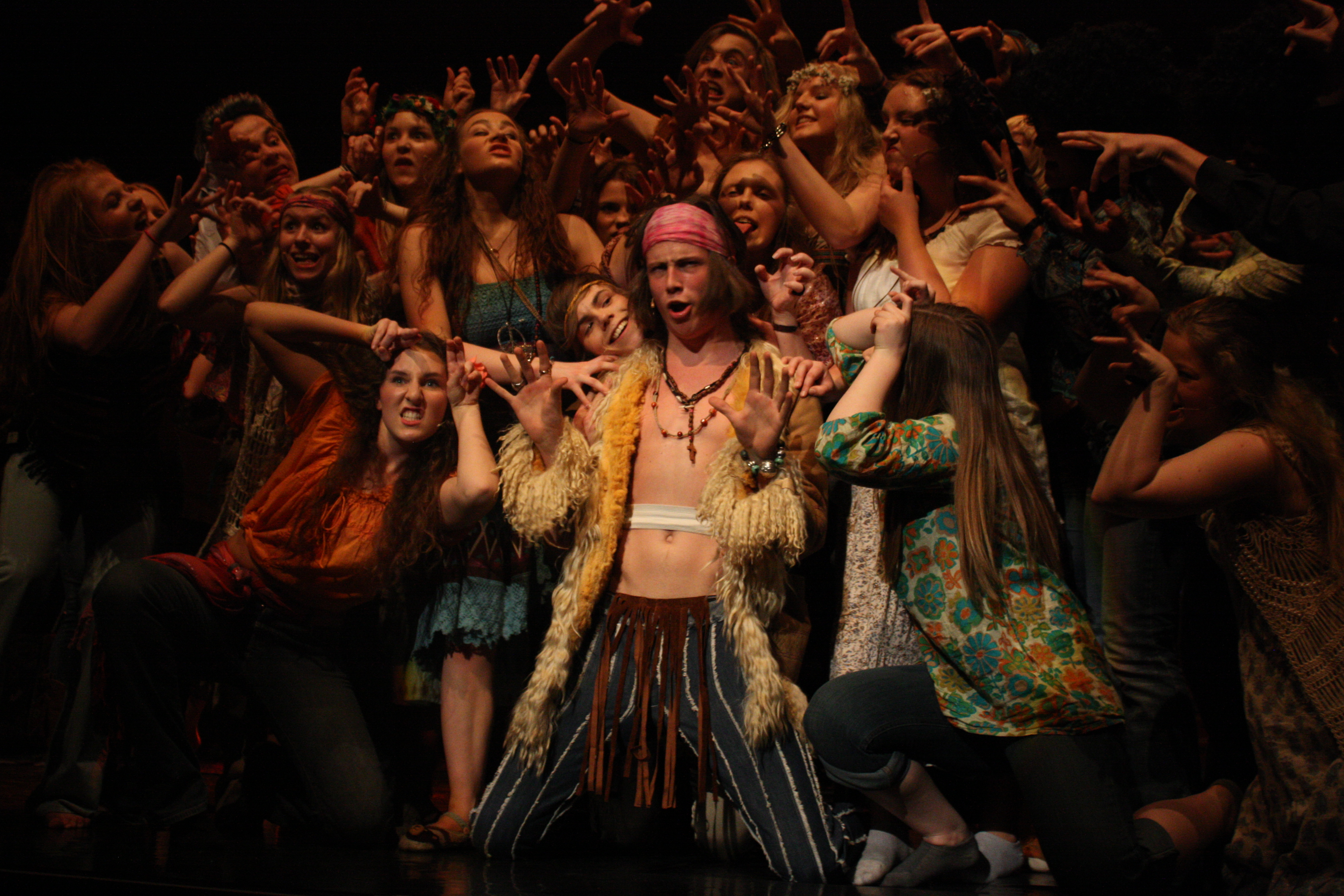 From HAIR the musical by APPLAUS, Moss, Norway